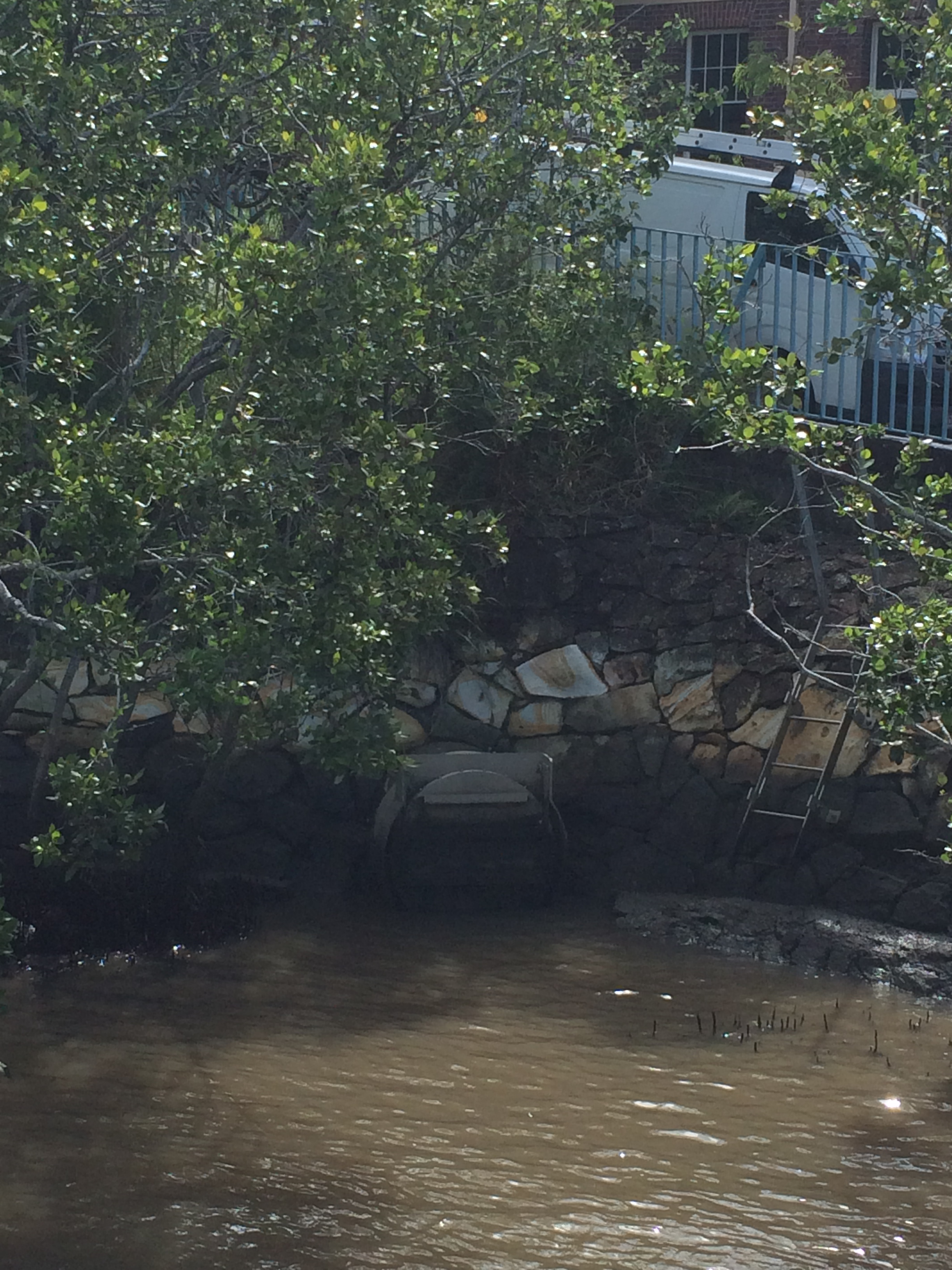 A now-underground creek in the Brisbane central business district, this is where it exits into the Brisbane River, near Alice Street